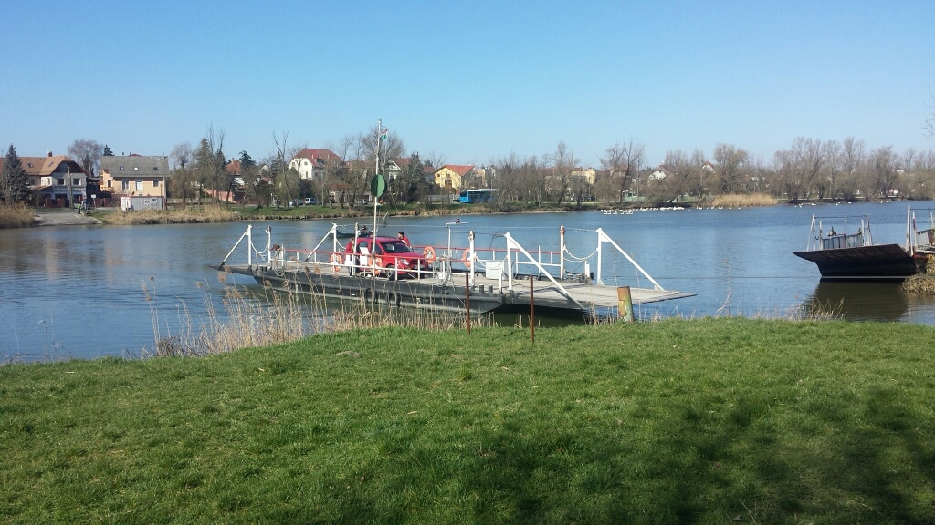 Ferry to the island Molnár. Budapest, Hungary.